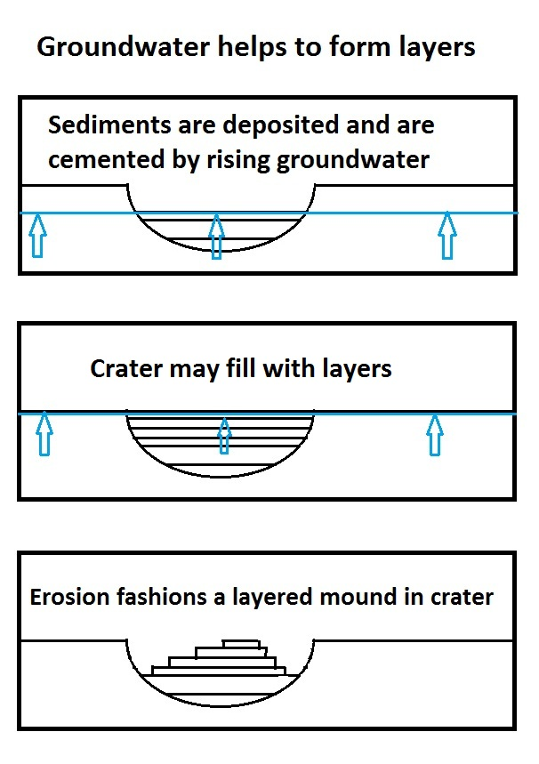 Series of drawings showing how groundwater can help to form layers in craters.